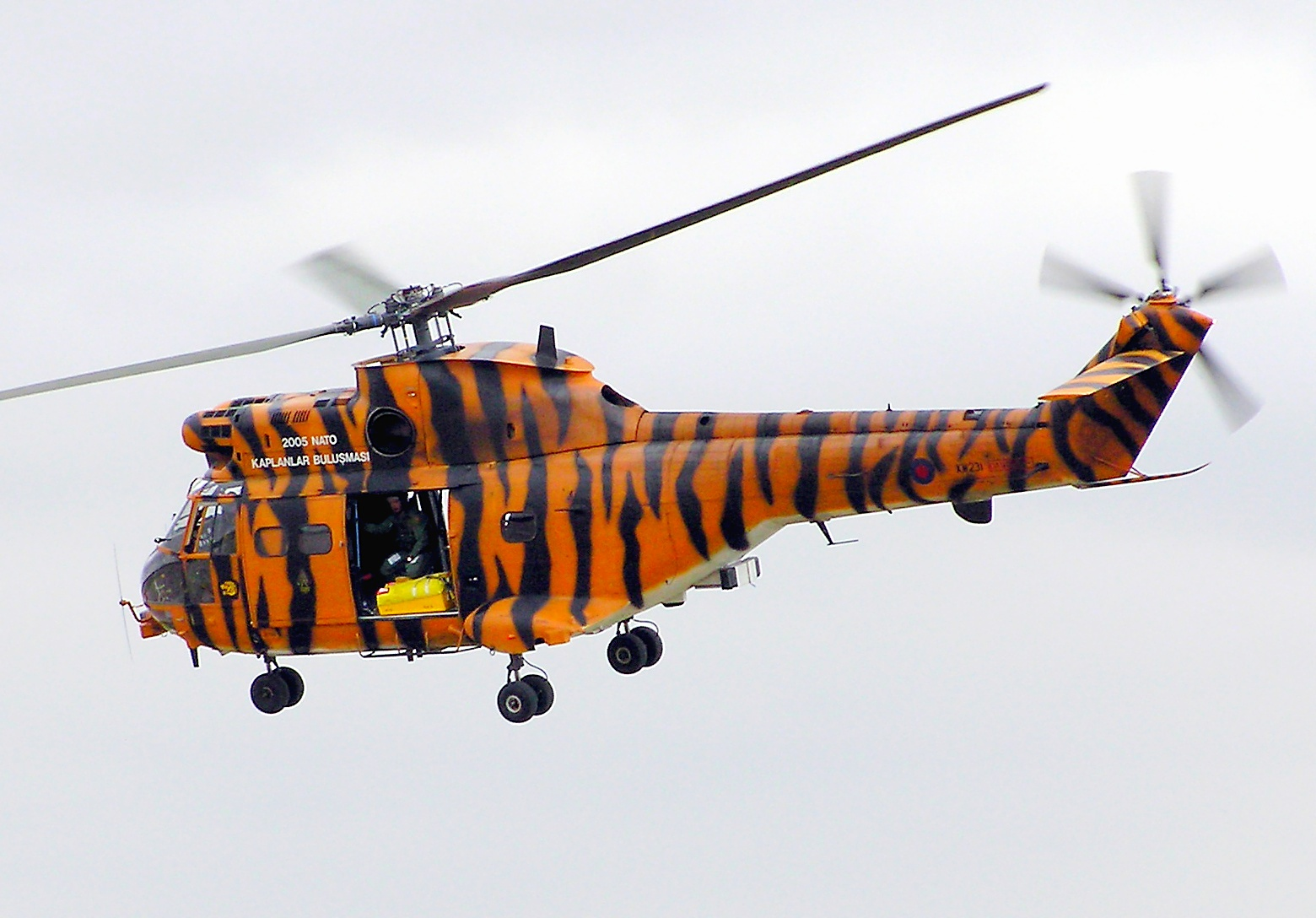 Royal Air Force Aerospatiale Puma HC.1 at the Royal International Air Tattoo, Fairford, Gloucestershire, England. This is the same machine as the civil SA330E Puma.